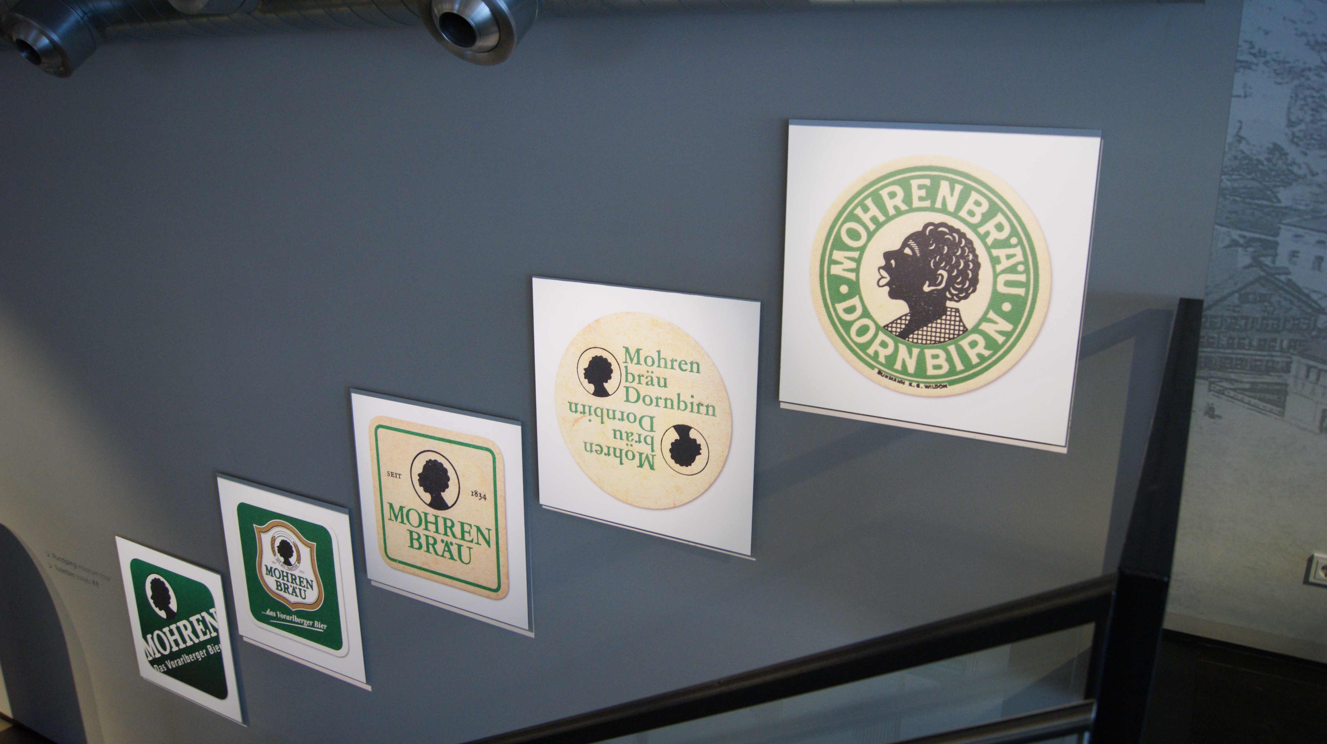 Mohren beer experienceworld in Dornbirn, Vorarlberg, Austria. Stairway to the second floor with historical beermat of the Mohren brewery.